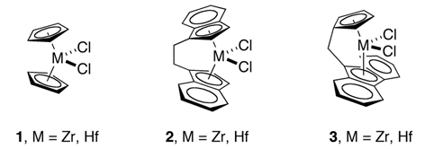 Metallocenes for olefin polymerization catalysts